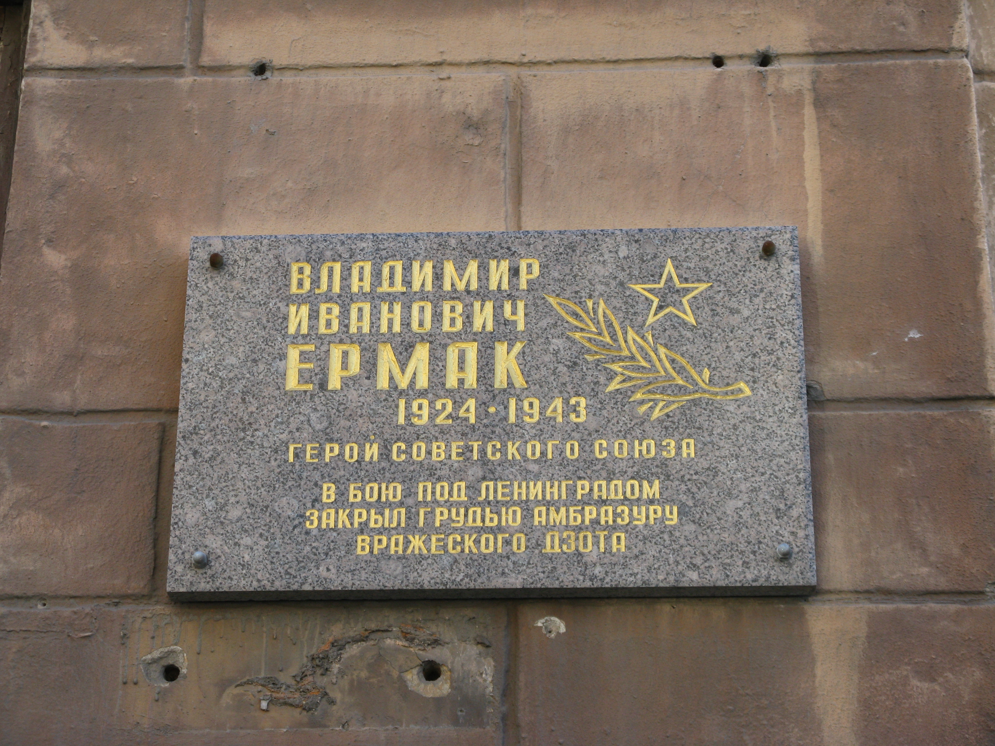 Commemorative plaque to Vladimir Ermak at Volodi Ermaka Street. St.-Petersburg